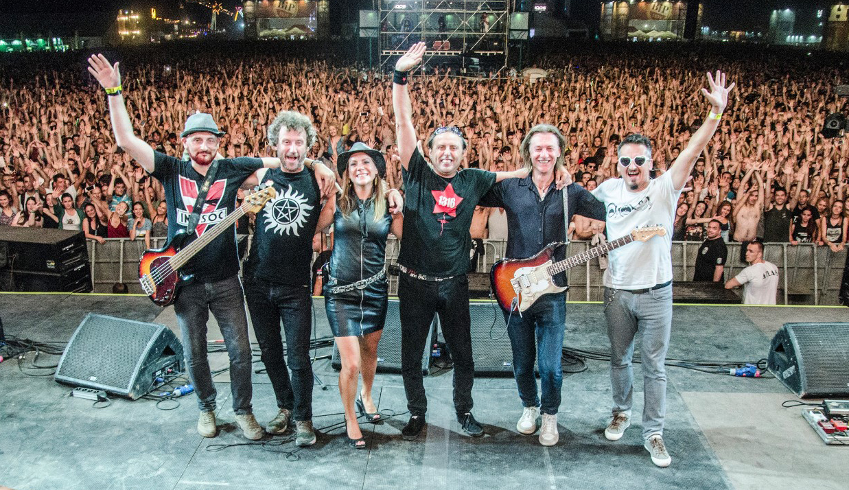 Zabranjeno pušenje at the 2017 Belgrade Beerfest